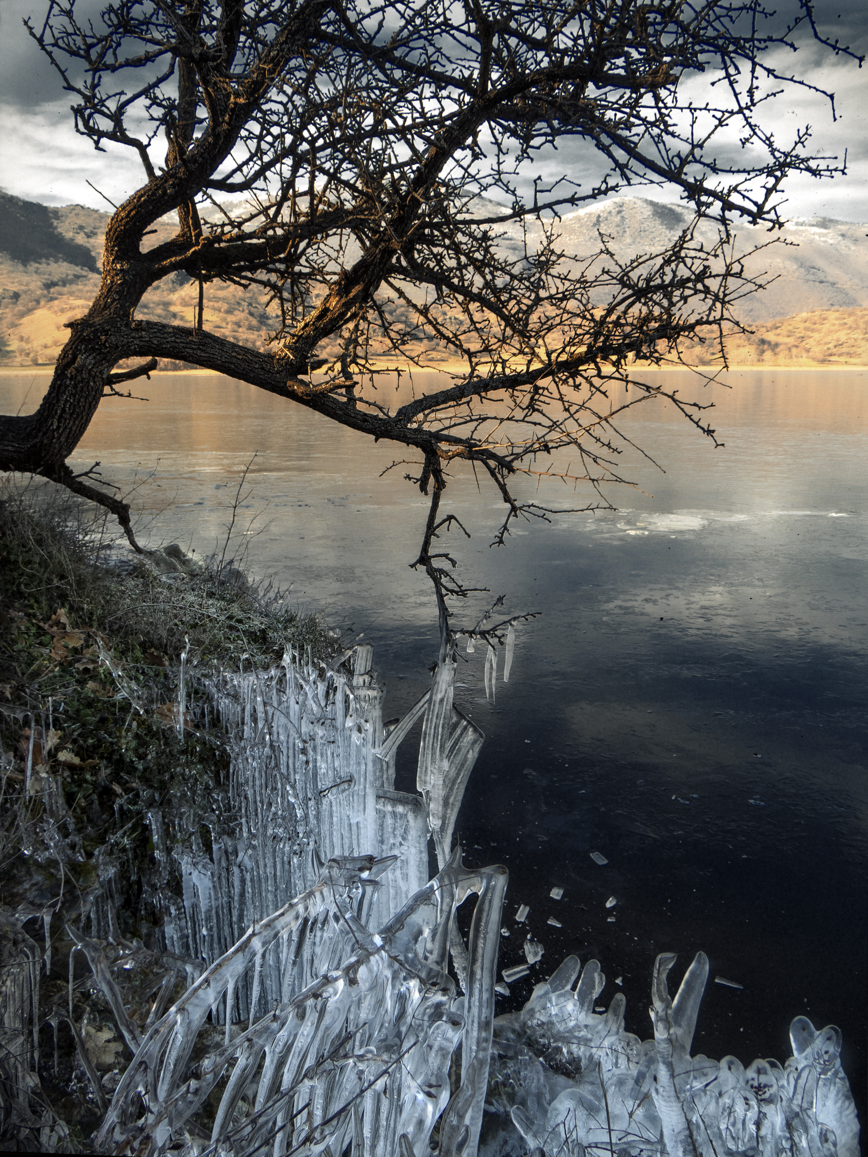 This is a photography of Natura 2000 protected area with ID GR1340005